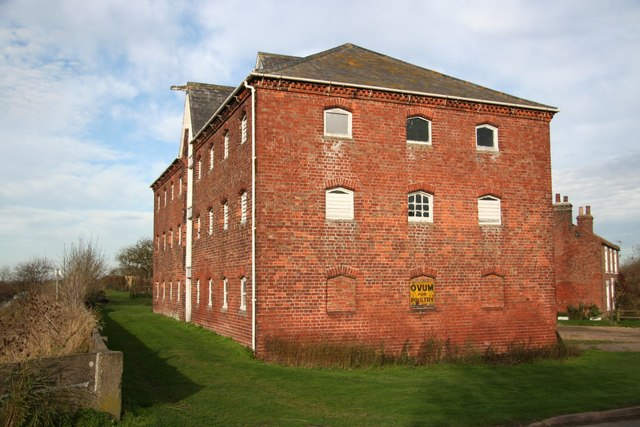 Navigation Warehouse Mid 19th century warehouse by the Louth Canal